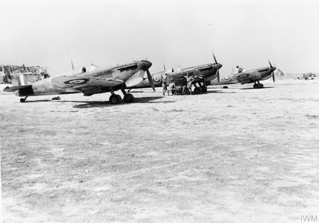 Three Royal Air Force Supermarine Spitfire Mark VC(T)s (BR130 'T-D' nearest), of No. 249 Squadron RAF at readiness in their dispersal at Ta Kali, Malta.